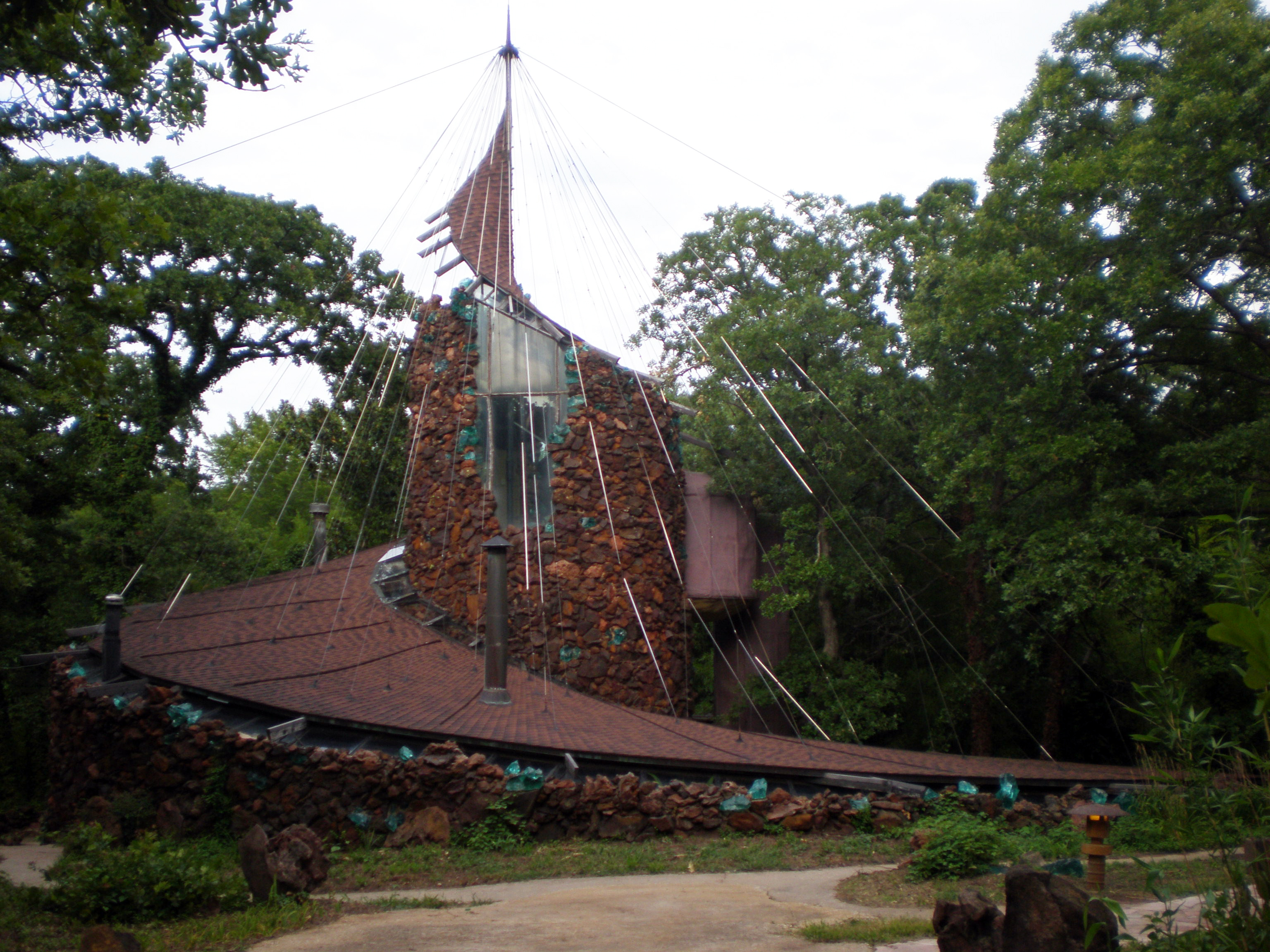 Photo of the Bavinger House's exterior